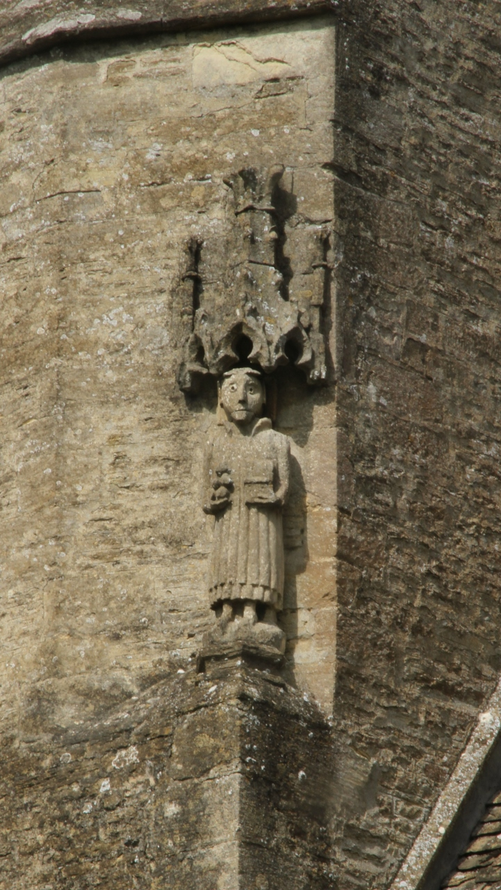 Canopied 14th- or 15th-century statue of St Stephen on the southeast corner of the west tower of St Stephen's parish church, Clanfield, Oxfordshire